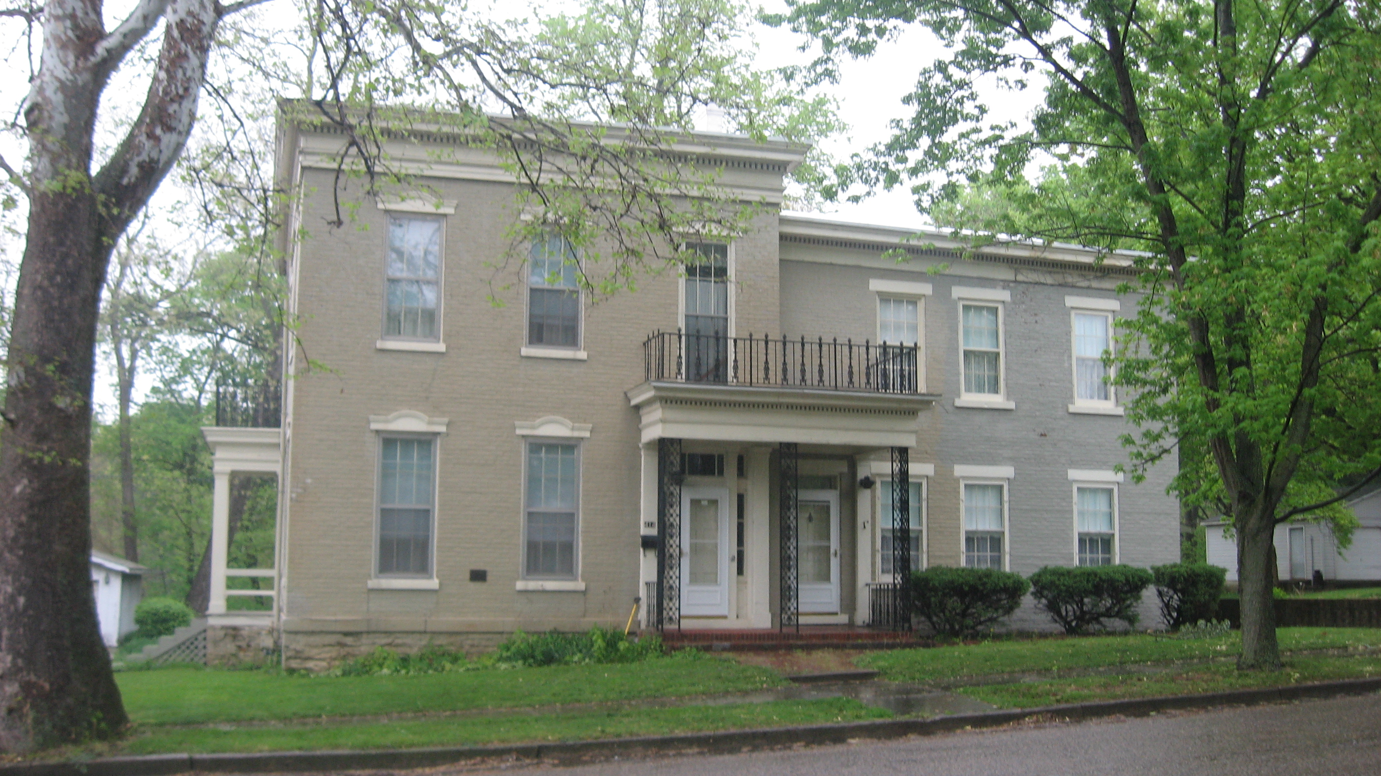 Front of the Marshall M. Milford House, located at 414 E. Main Street in Attica, Indiana, United States. Built in 1845 as a Federal house and rebuilt in the Greek Revival style, it is listed on the National Register of Historic Places. It is also part of a Register-listed historic district, the Attica Main Street Historic District.